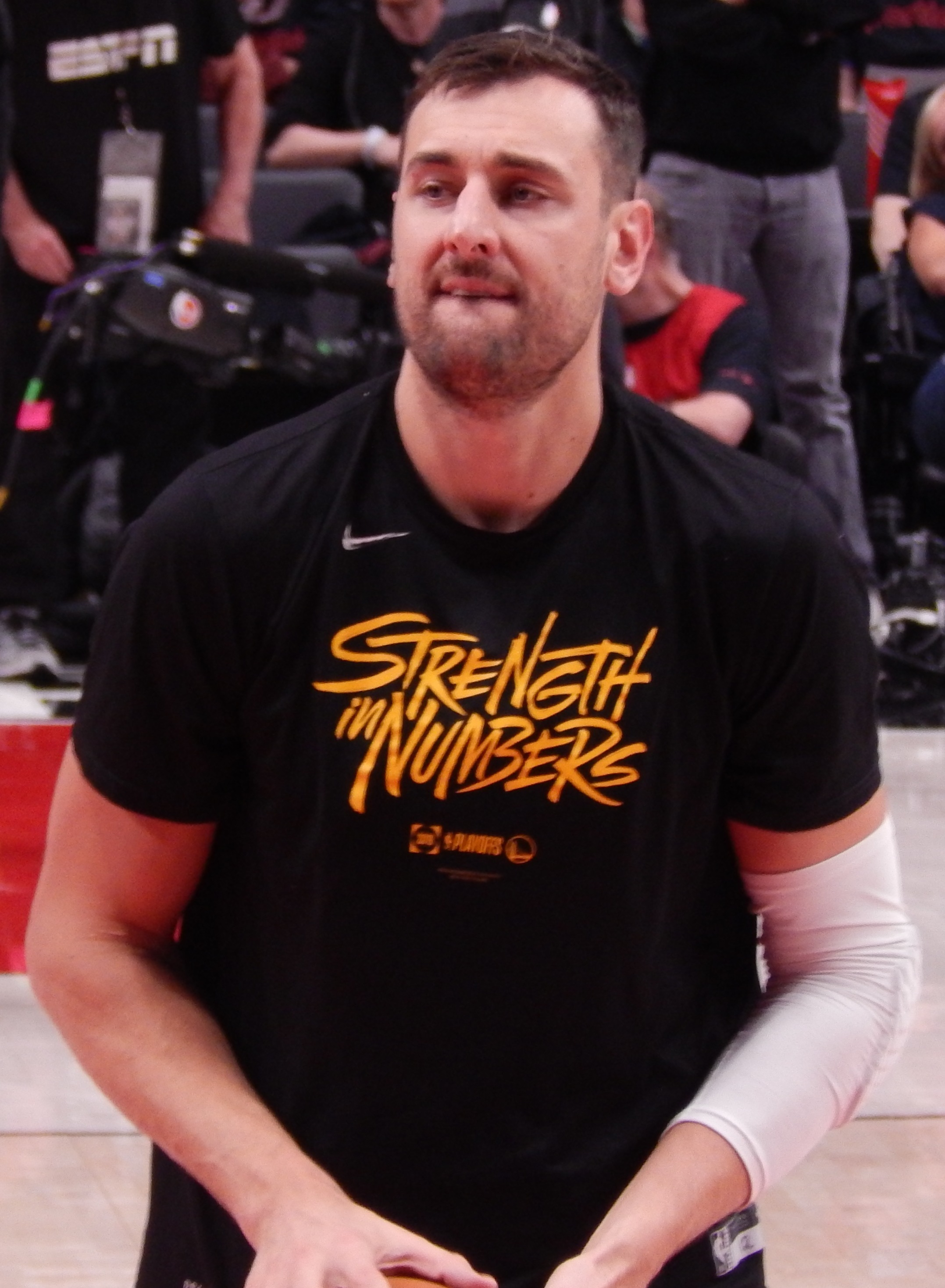 Andrew Bogut #12 of the Golden State Warriors shoots during pregame warmups against the Portland Trail Blazers on May 18, 2019 at Moda Center in Portland, Oregon.